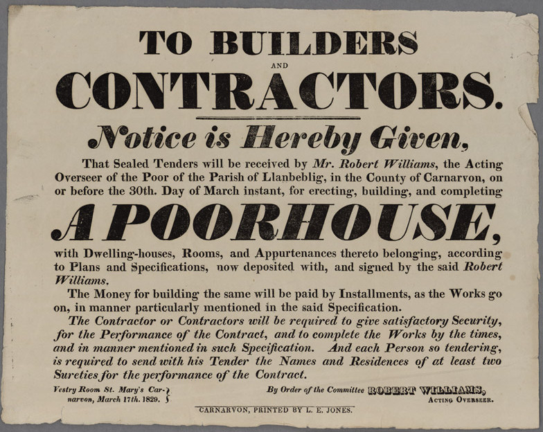 To Builders and Contractors 1829